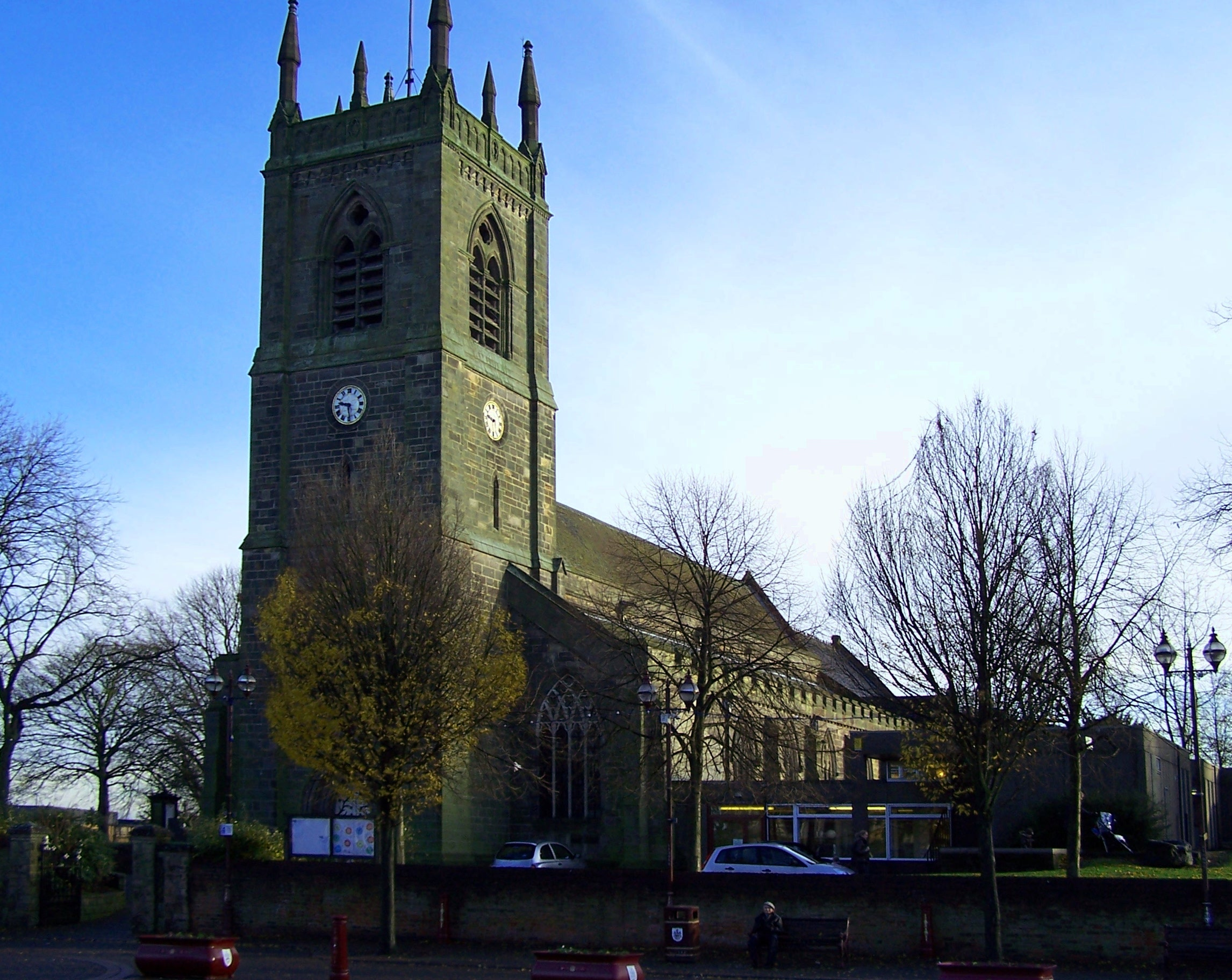 St Mary's parish church, Ilkeston, Derbyshire, seen from the southwest